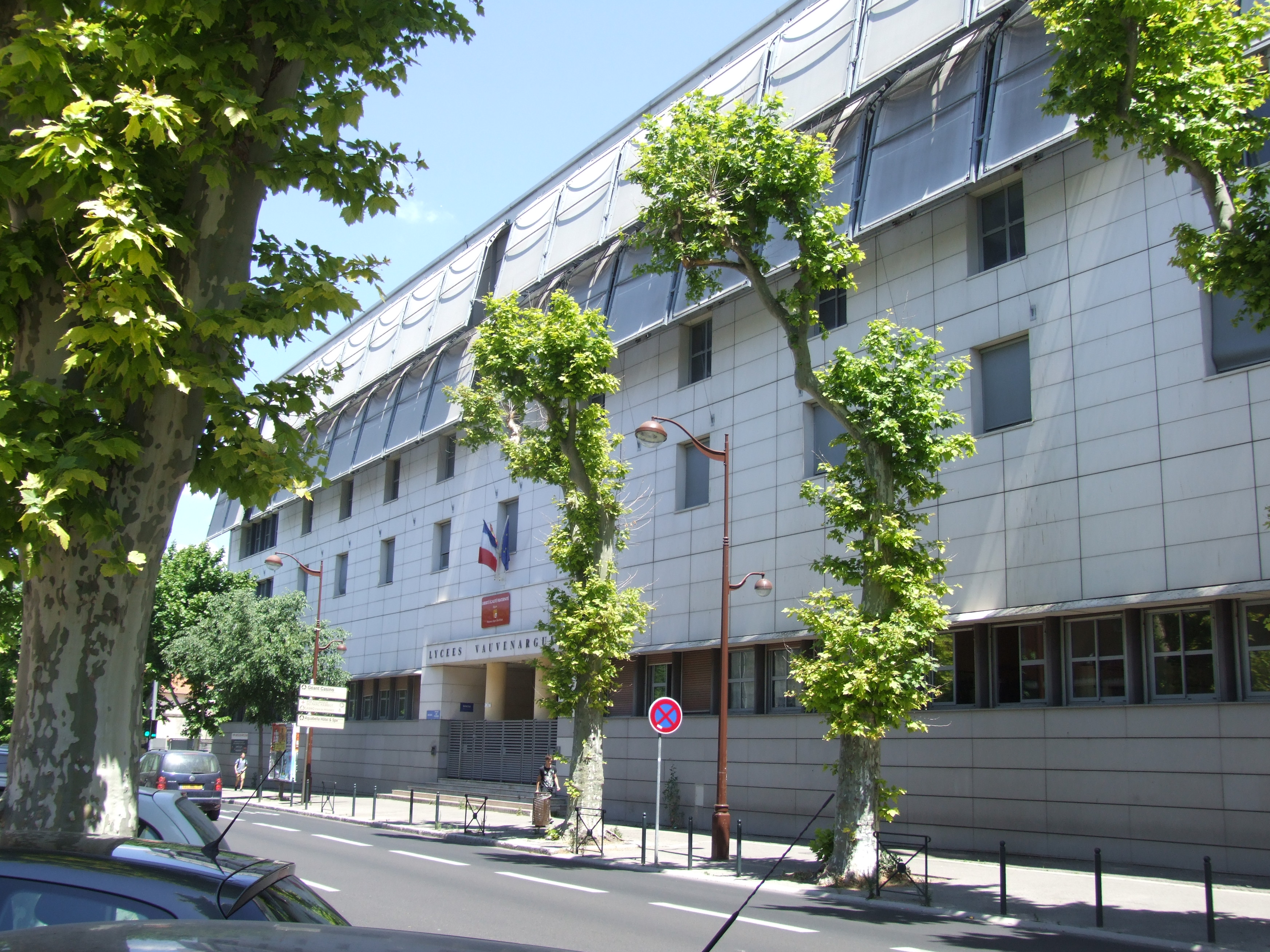 Lycée Vauvenargues, Aix-en-Provence, Bouches-du-Rhône, France